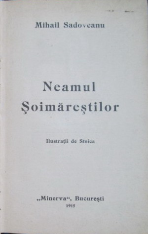 Title page for the original edition of Neamul Şoimăreştilor novel, by Romanian author Mihail Sadoveanu (published by Editura Minerva).